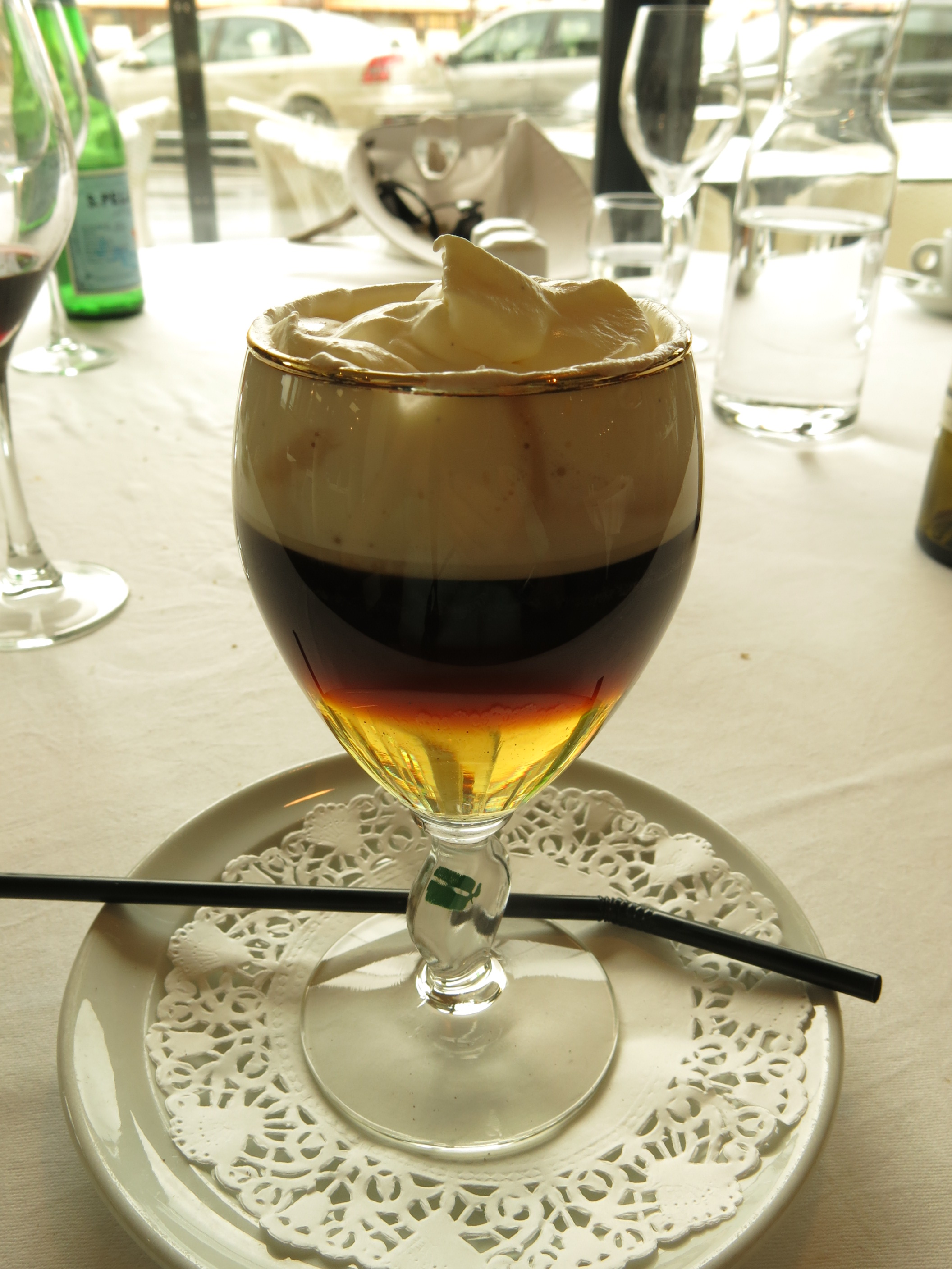 Irish coffee in Bellevue, Capbreton (Landes, France).